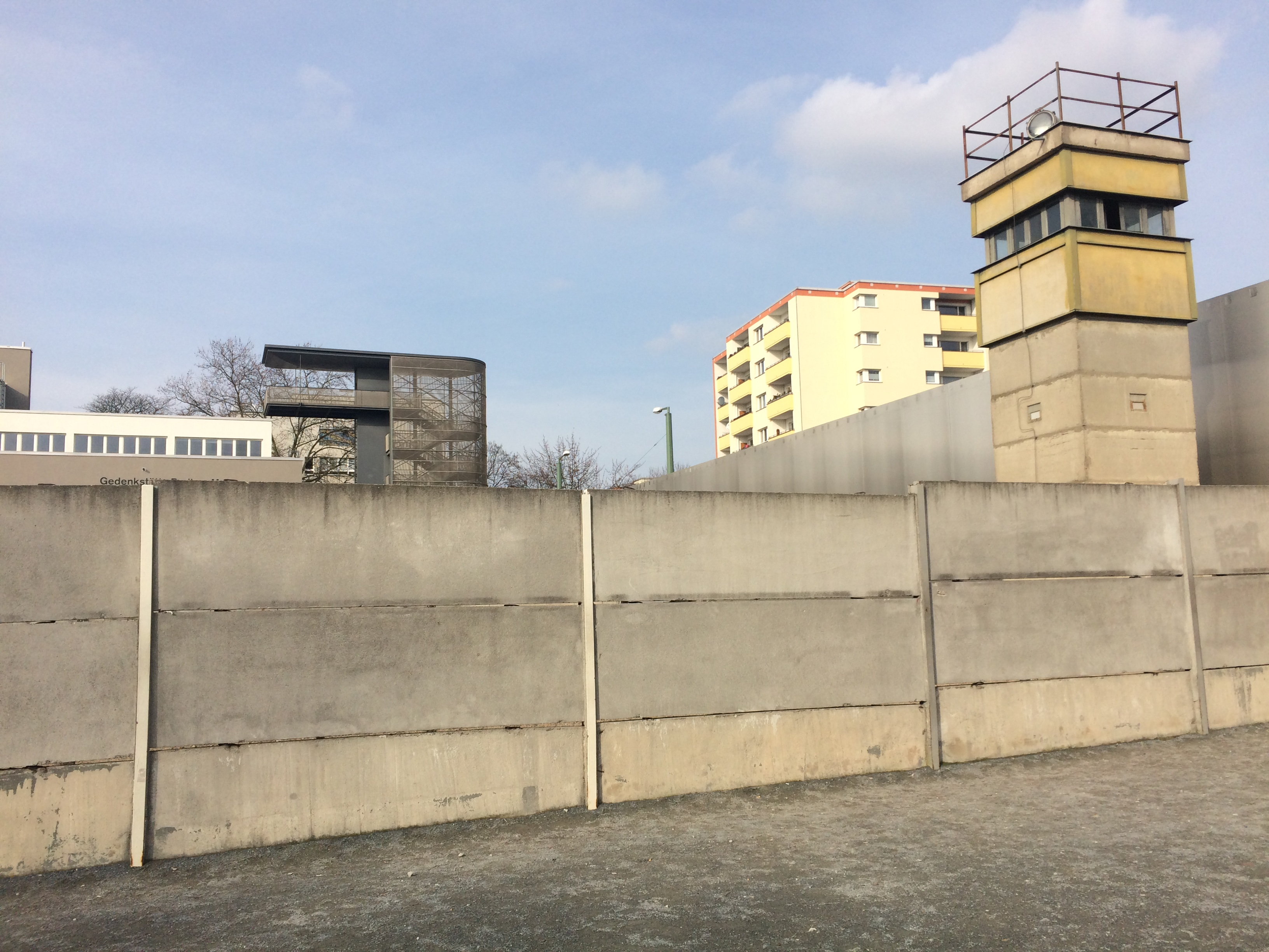 The wall of Berlin.